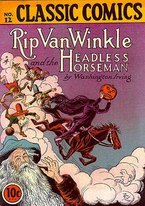 Cover scan of a Classics Comics book